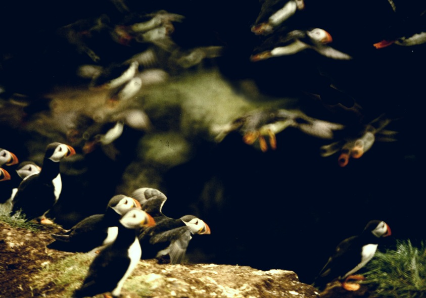 Atlantic Puffin (Fratercula arctica)